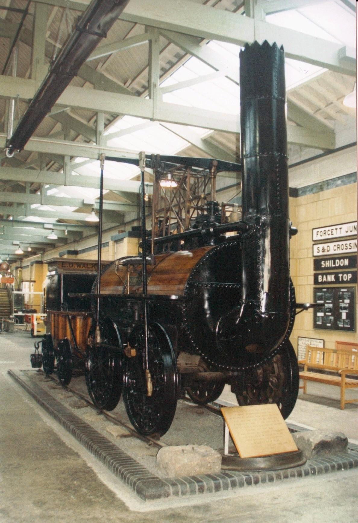 Locomotion No.1 from 1825 displayed in the Darlington Railway Centre and Museum